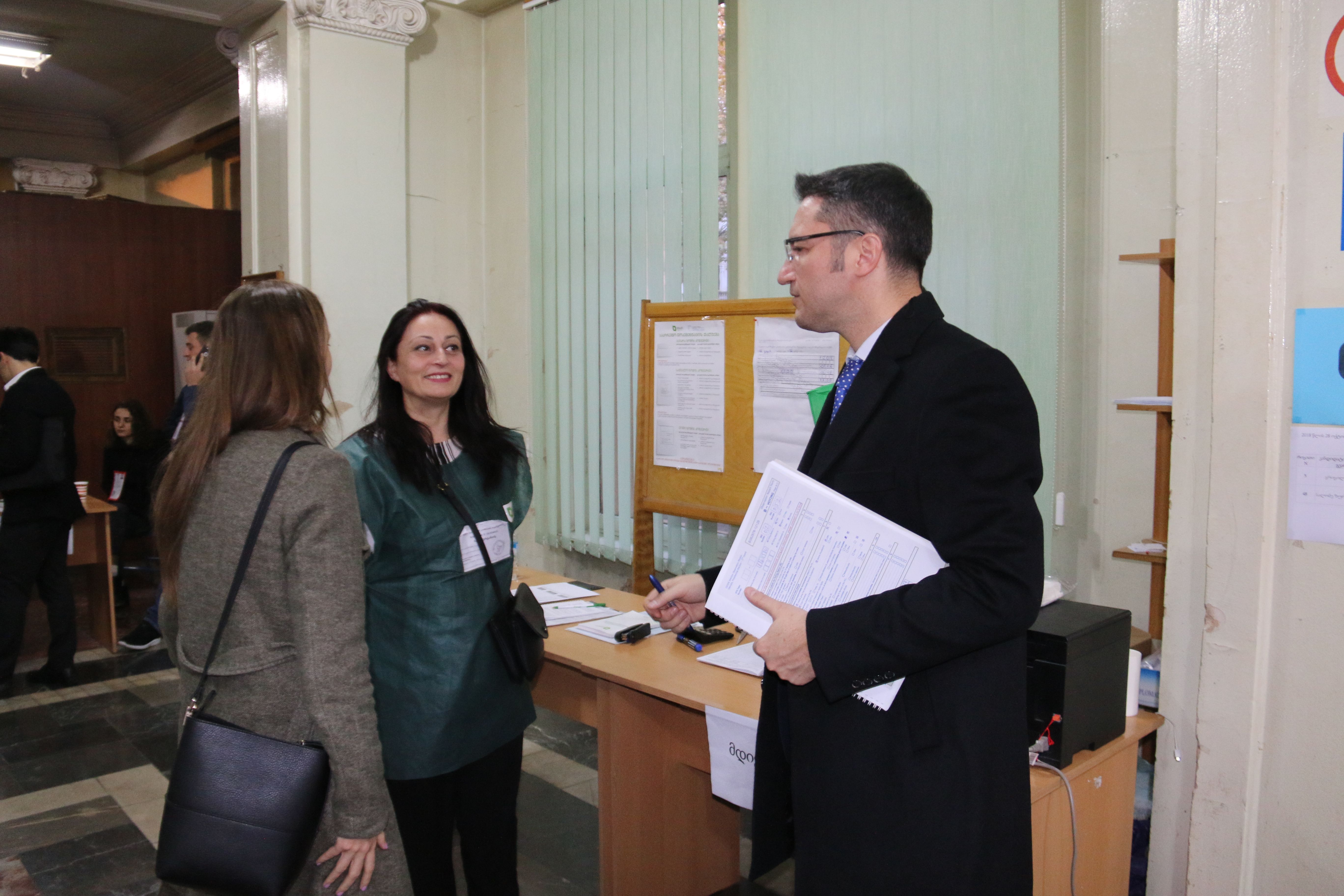 OSCE PA EOM to Georgia (2nd Round Presidential Election) November 2018